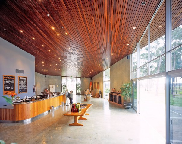 Tasting room in Howard Park Wines' Margaret River (Australia) winery.